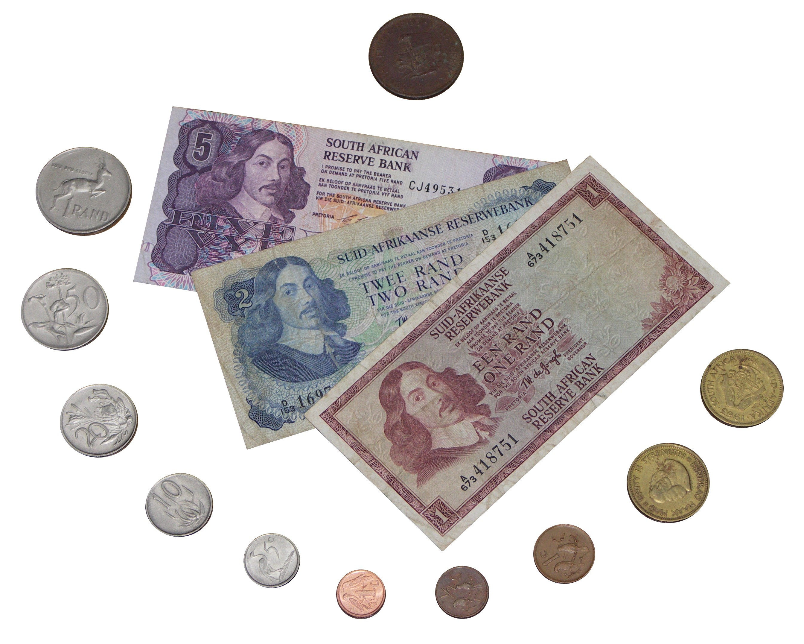 Old banknotes and coins of South Africa, replaced by the iconic "Big Five" notes which were futher updated to the current notes depicting the Big Five and the late Nelson Mandela.